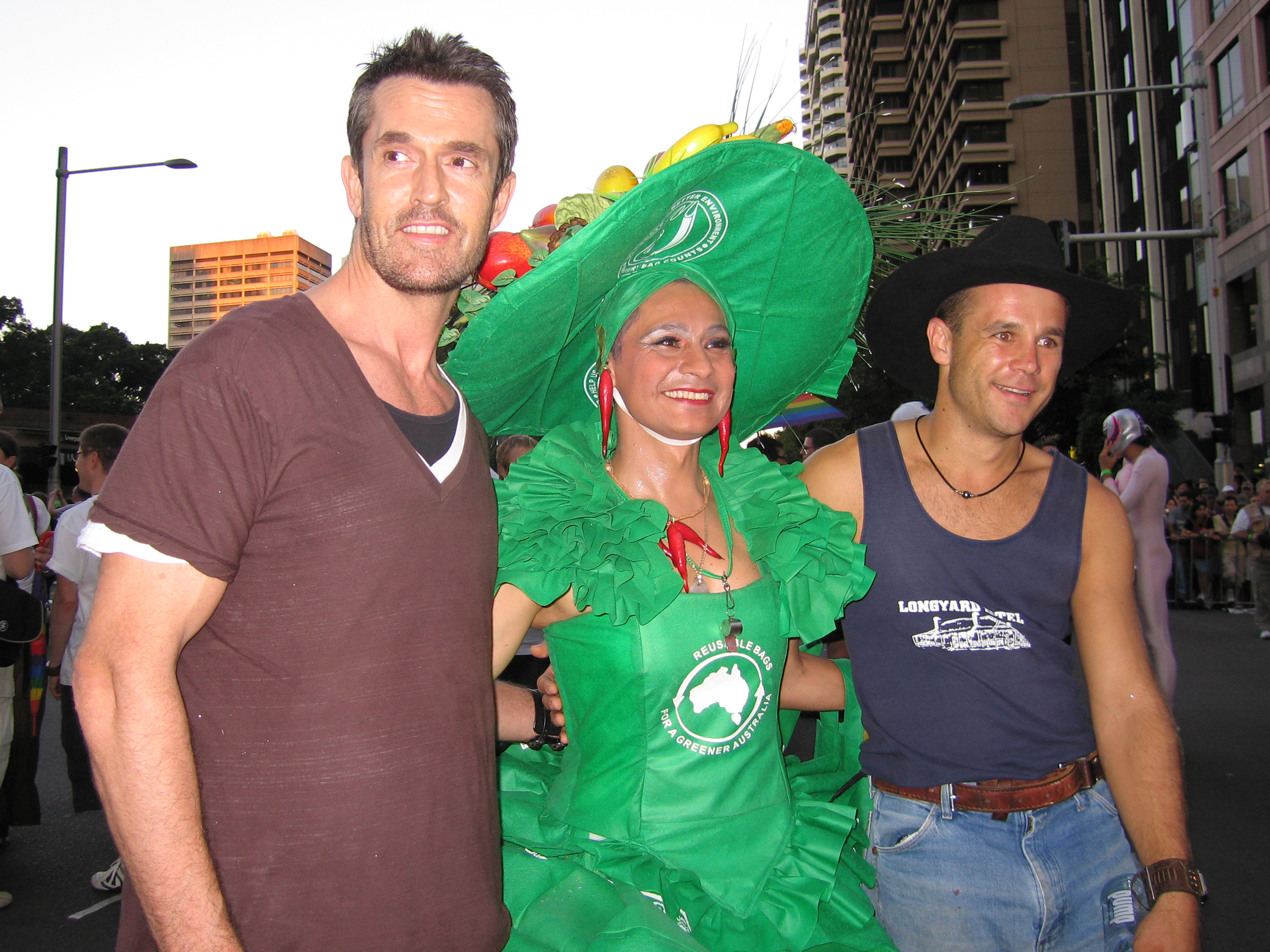 British actor Rupert Everett at the 2007 Sydney Gay and Lesbian Mardi Gras.